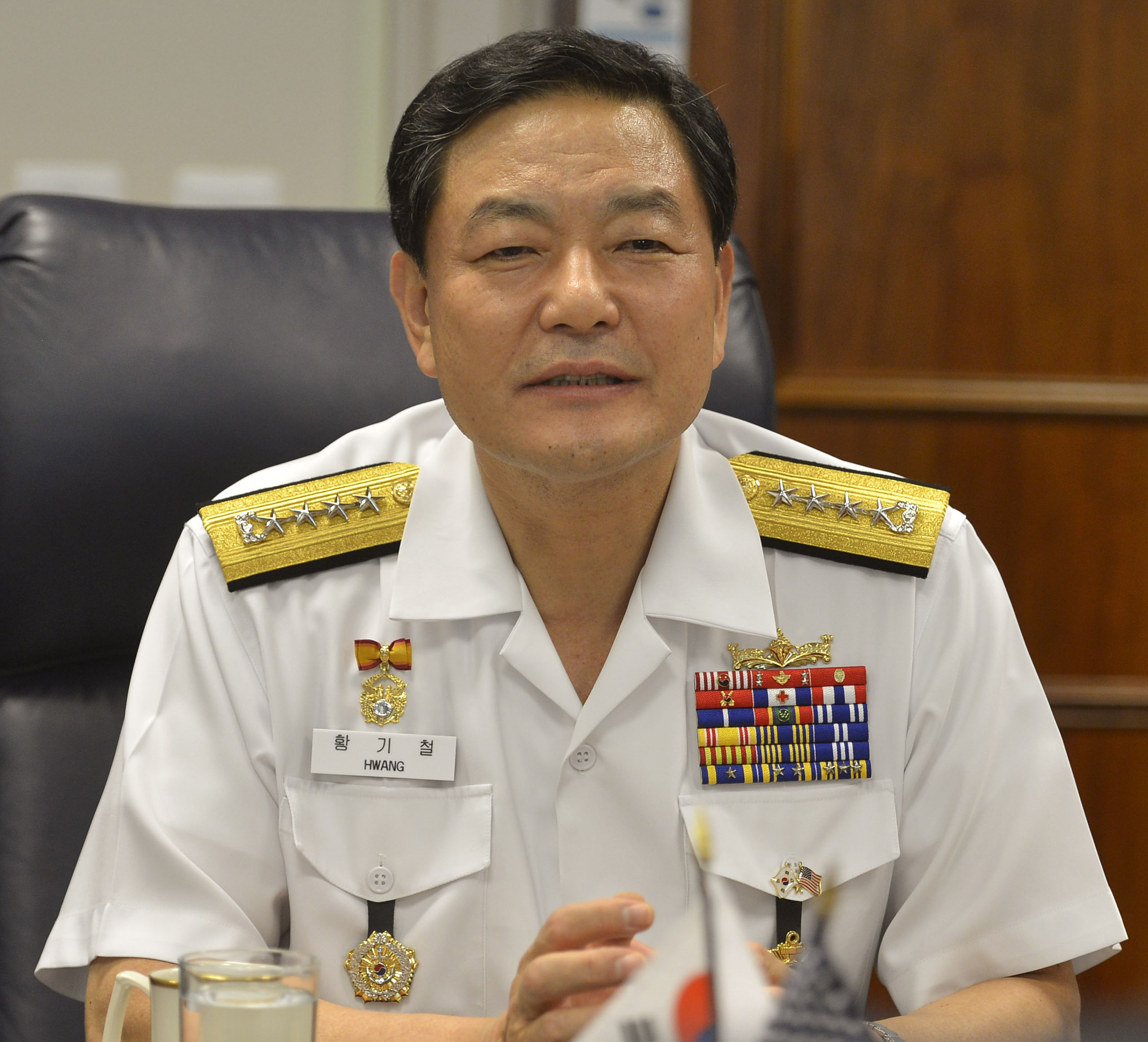 Republic of Korea Chief of Naval Operations Admiral Hwang Ki-Chul